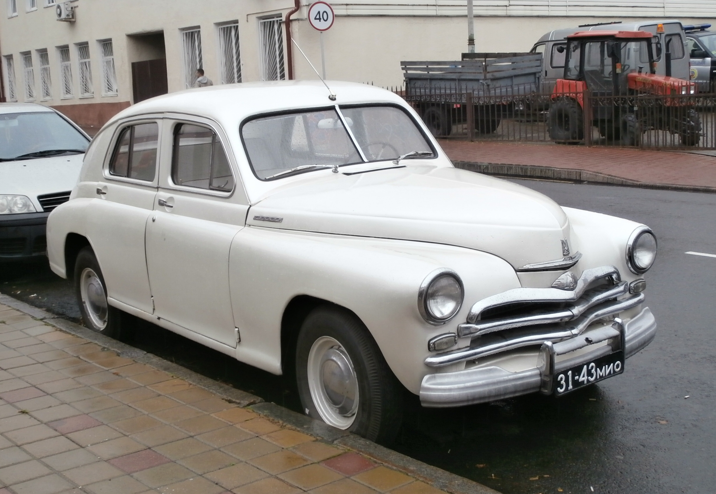 31-43 мио GAZ-M-20 Pobeda Komsomolskaya Rd Minsk 10 September 2014